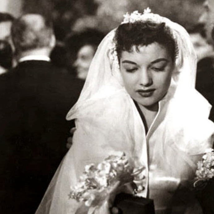 Beatriz Taibo and Tita merello in to dress saints by Leopoldi Tone Nilsson